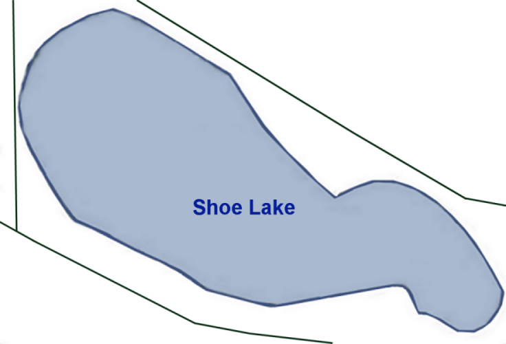 Sketch map of Shoe Lake, Indiana